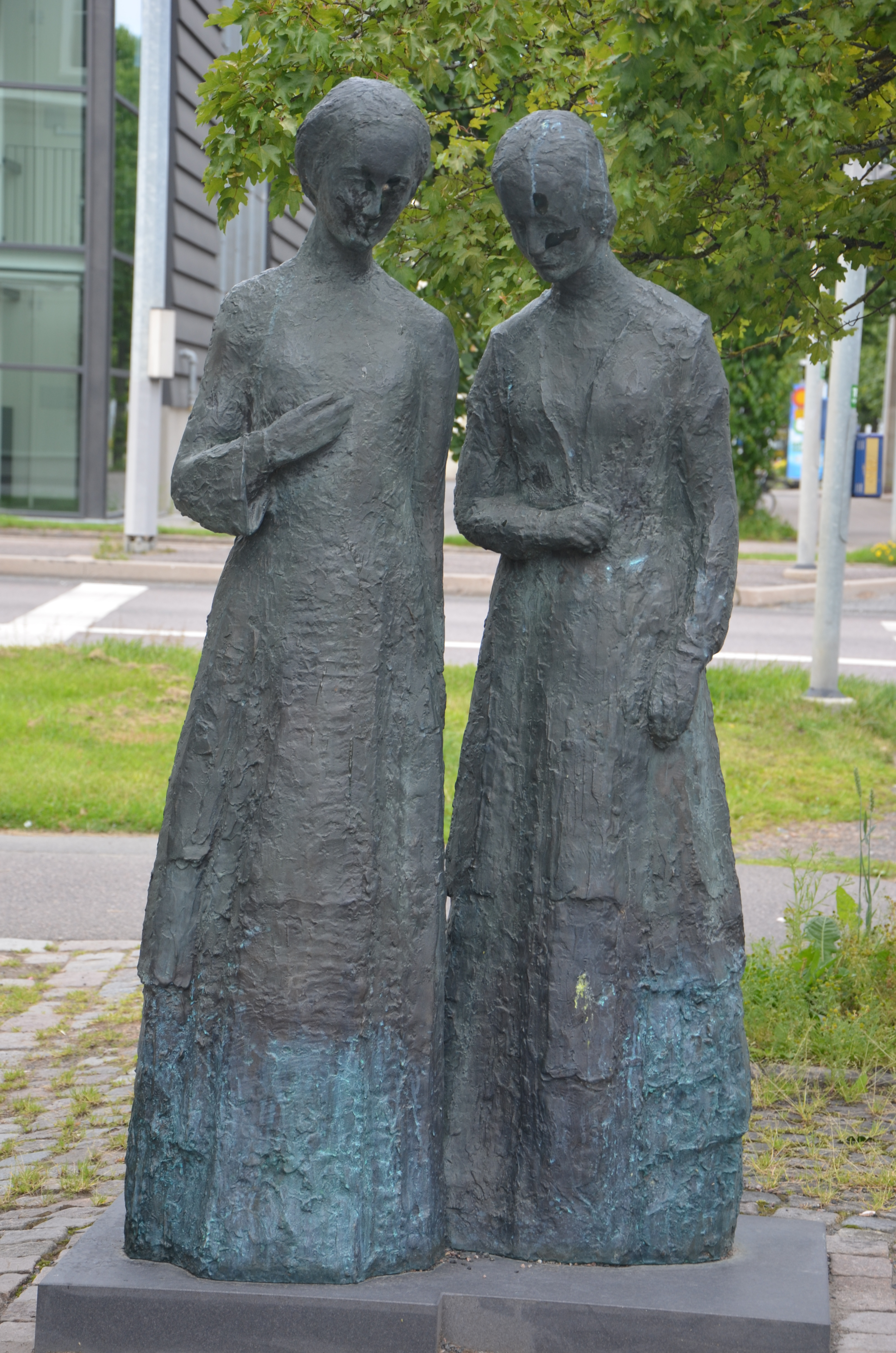 Samtal av Margareta Engström. Gelbgjutargatan, Jönköping